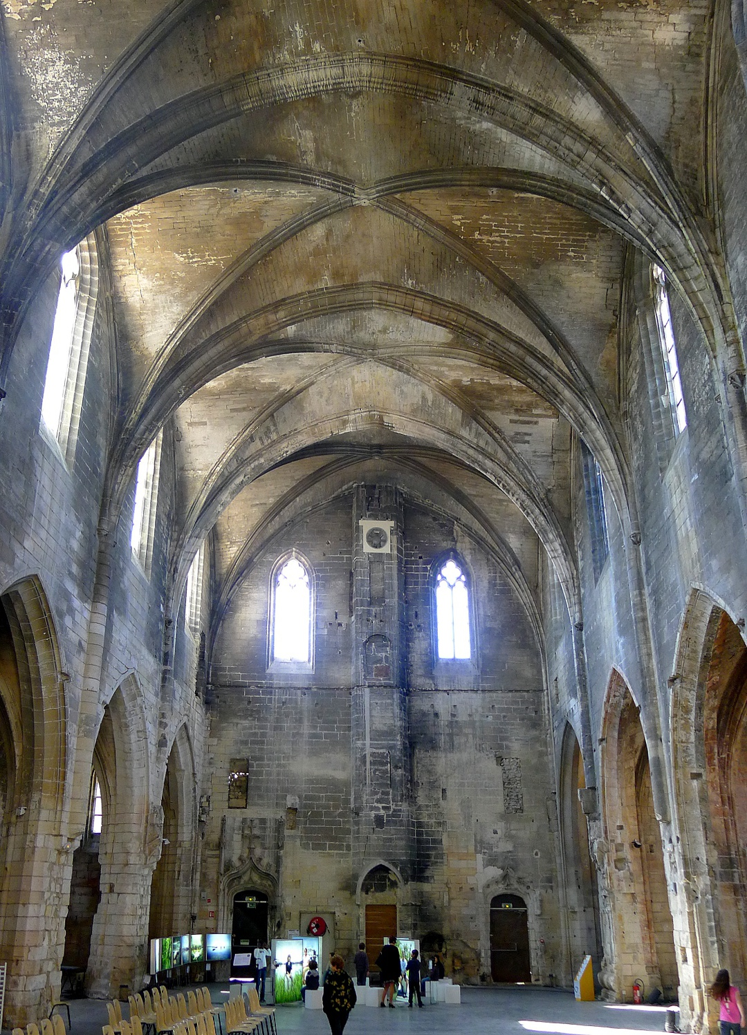 Dominicains church in Arles (Bouches-du-Rhône, France)